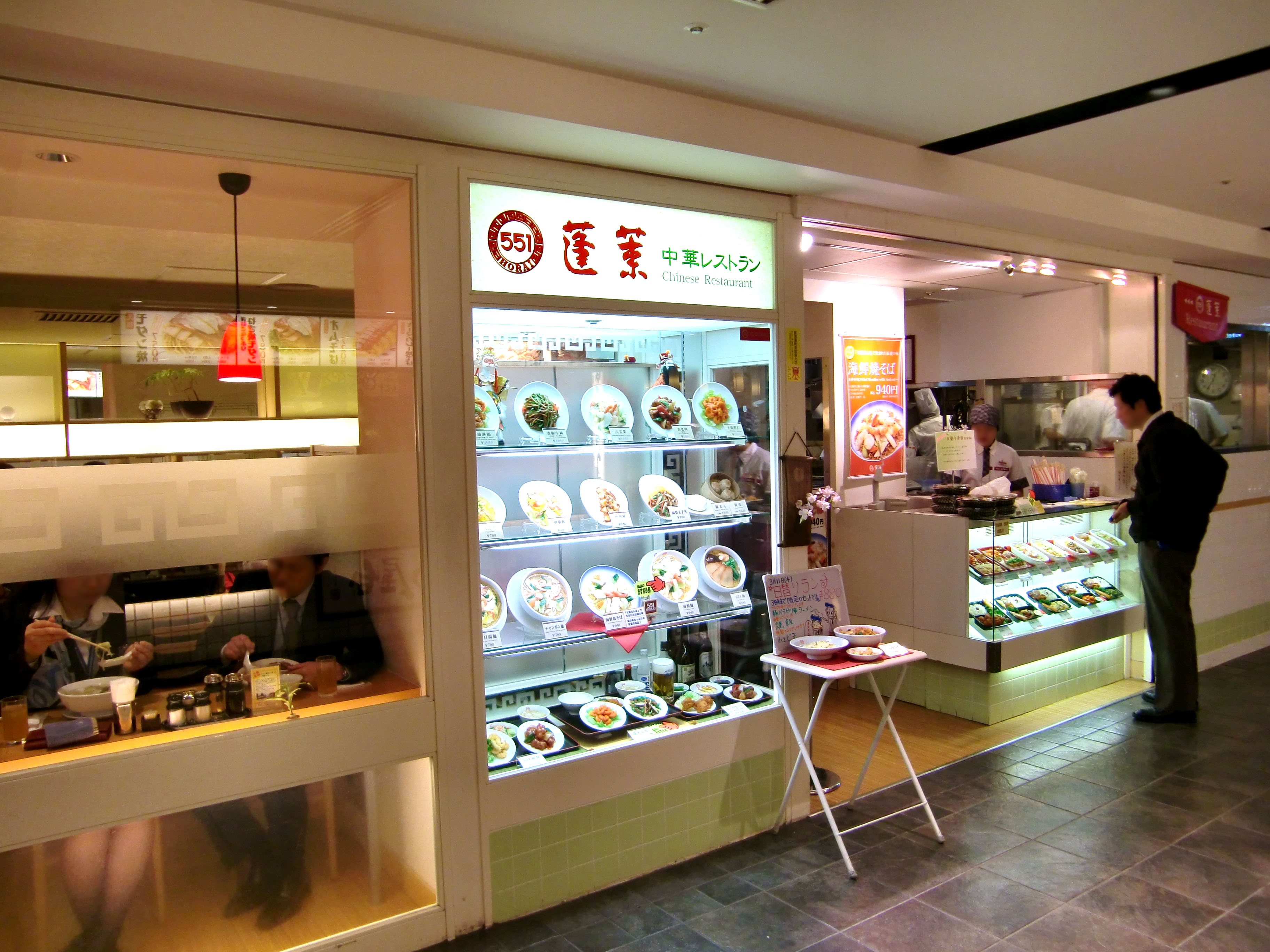 HORAI Kansaikuko, Osaka, Japan.